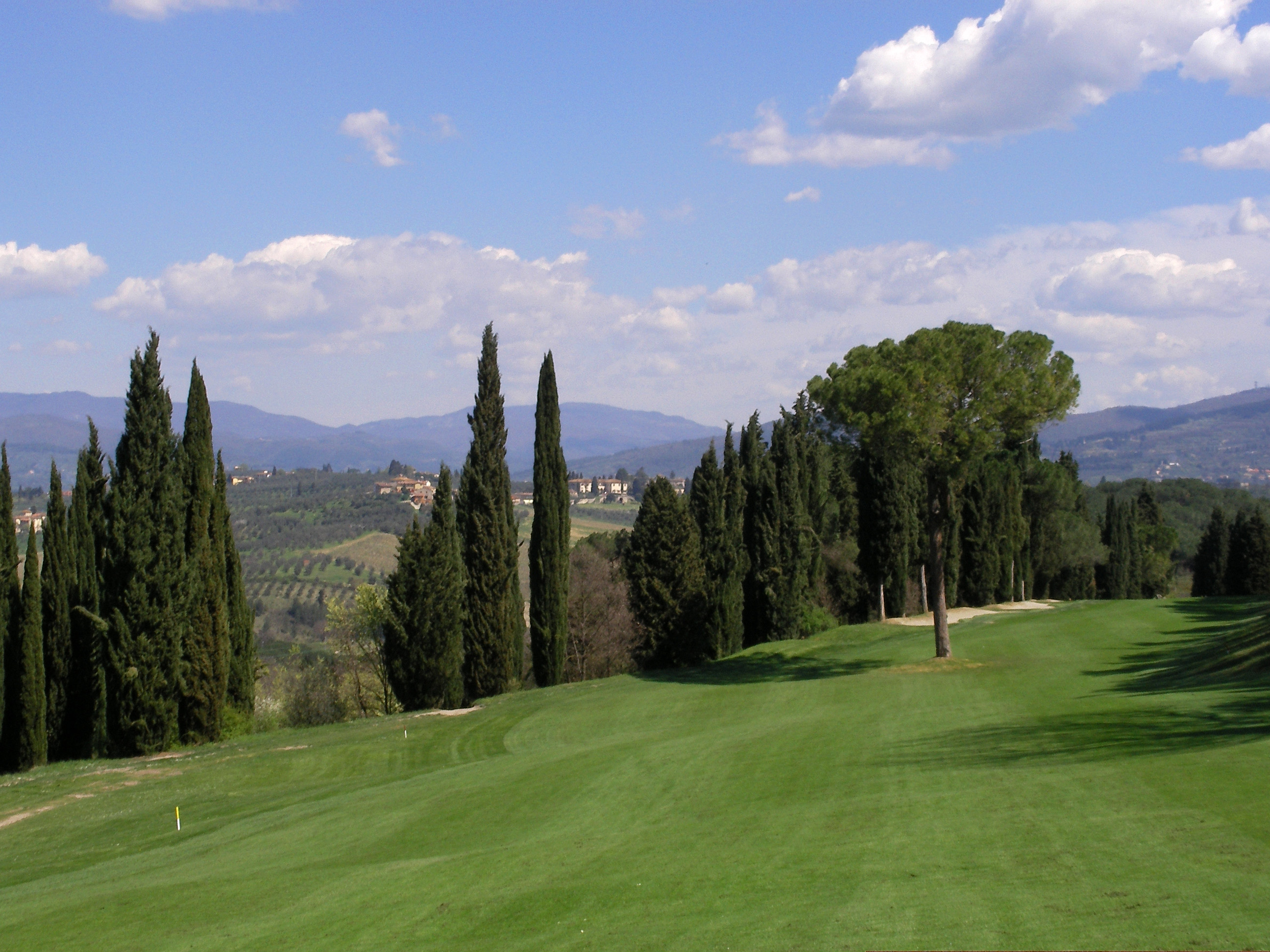 9th Fairway, View of the Chianti Hills and its Vineyards, Circolo del Golf dell'Ugolino